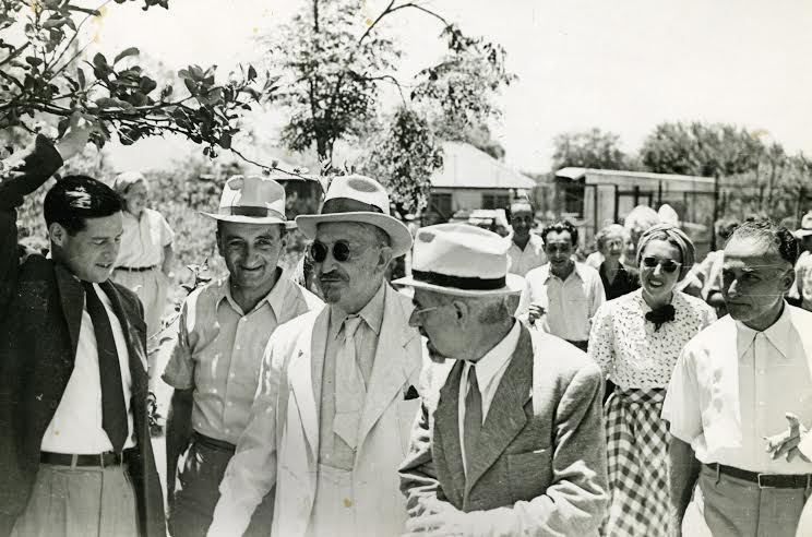 Dr. Chaim Weizmann visiting Ramot HaShavim, 1944. Weizmann with sunglasses, Dr. Walter Steinitz on his right, Walter Manheim on his left